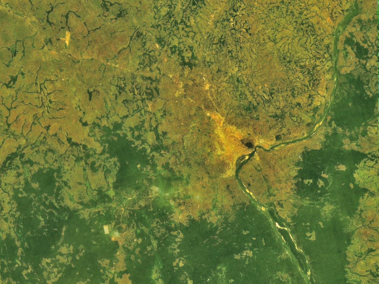 Satellite picture of Bangui.